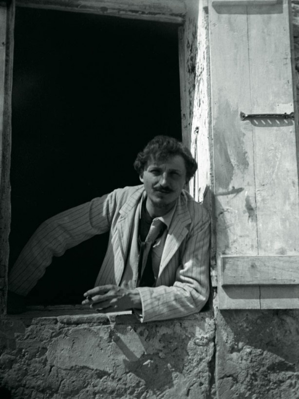 George-Gasté, Orientalist painter in 1908